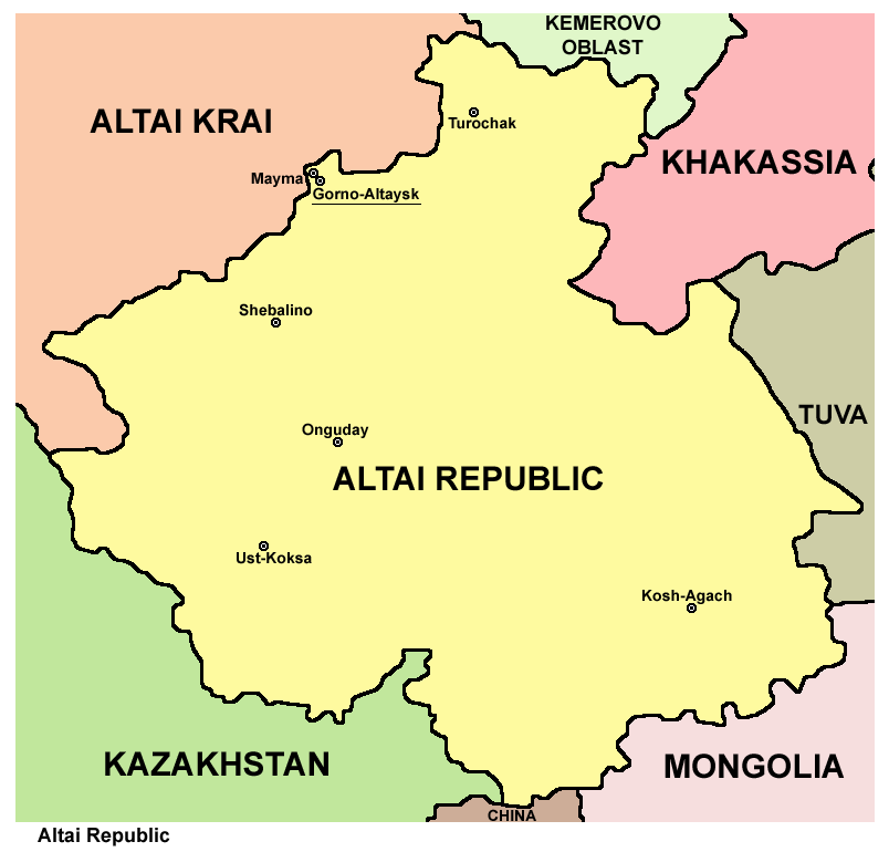 Map of Altai Republic, Russia.